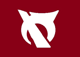 Flag of Yamagata Nagano